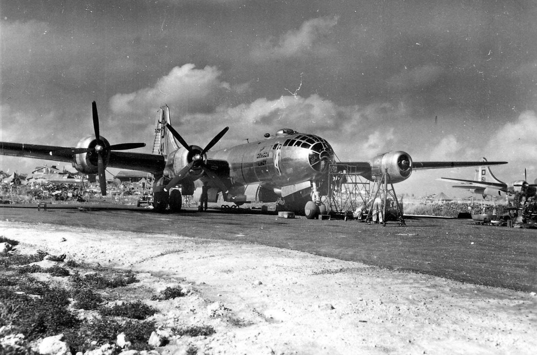 Boeing B-29 "The Dragon Lady" undergoes maintenance on Saipan, Marianas. Note that the No. 1 and No. 2 propellers have been removed.